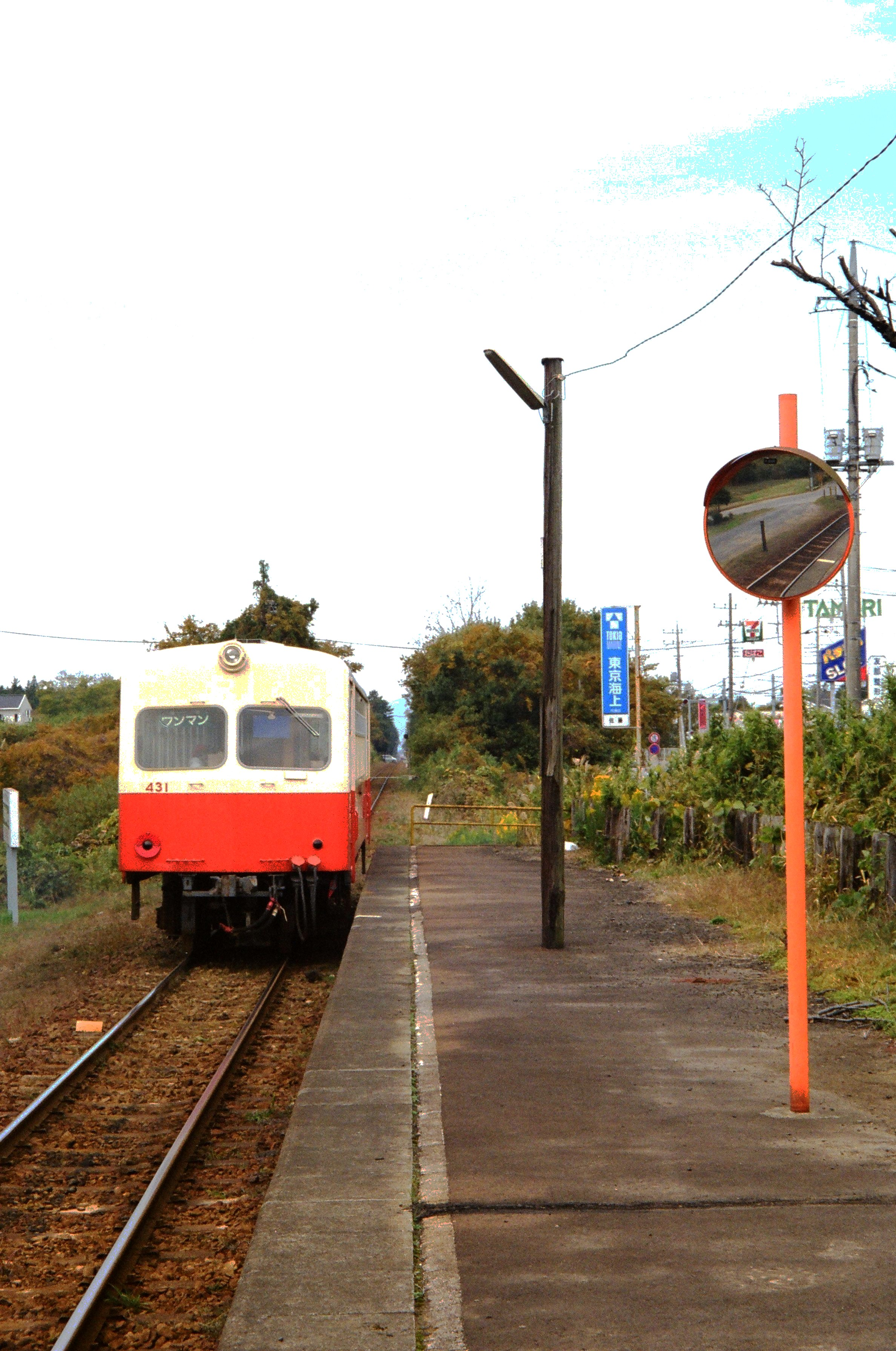 Kashima Railway Shintakahama station (Japan,Omitama).